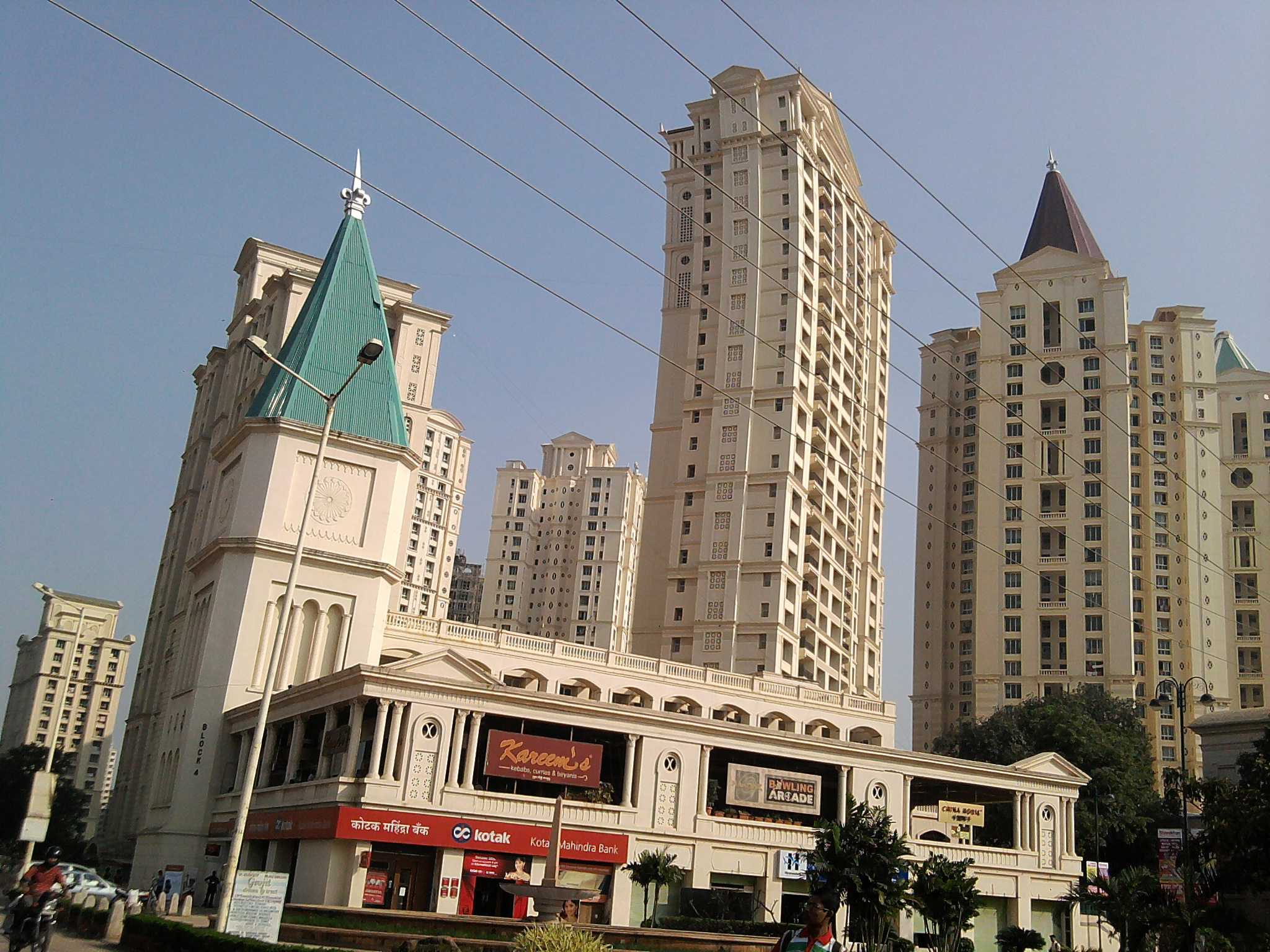 kalyan antariksha co.op.hsg